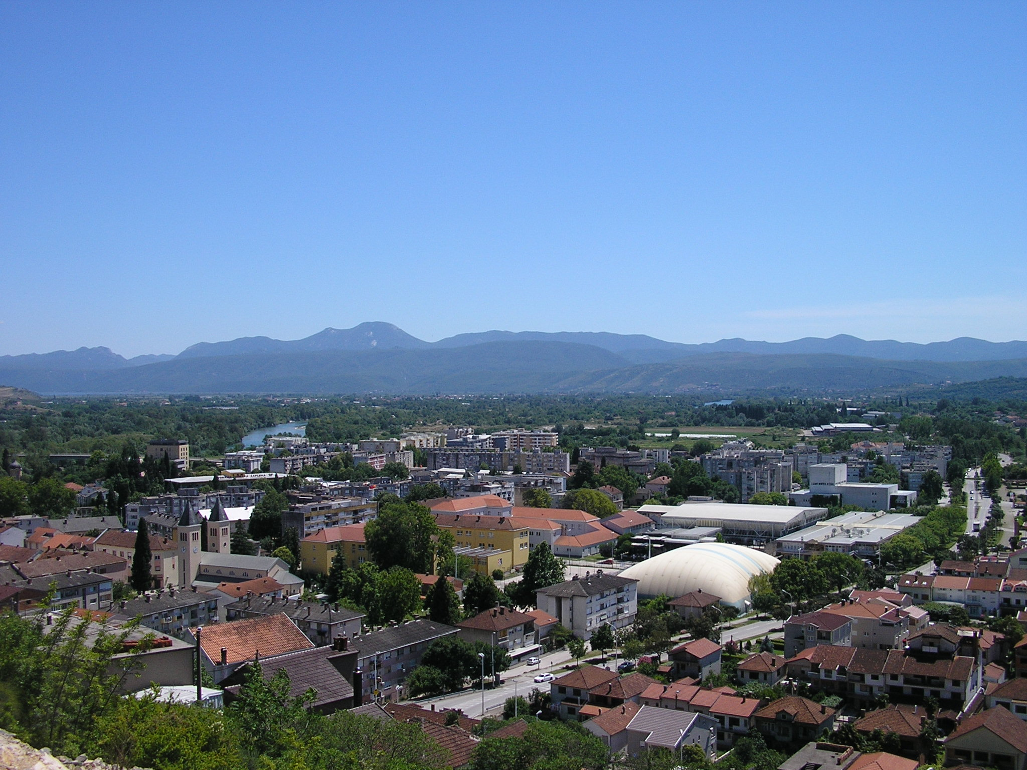 Panorama of Čapljina